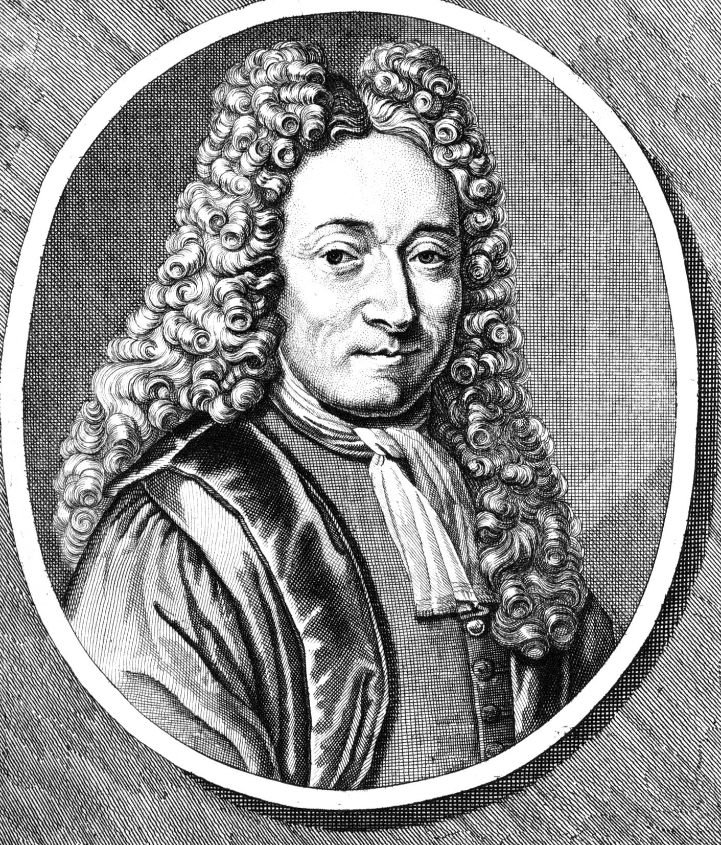 Jacob Wittich also: Jacobus Wittichius (1671-1739) German philosopher and mathematician